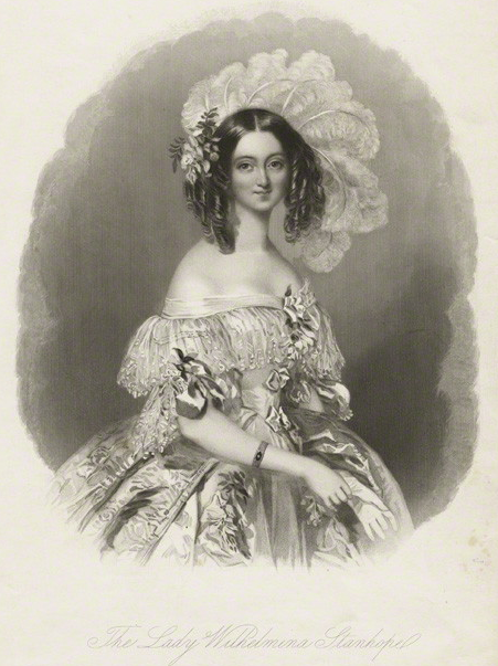 1838 engraving titled "The Lady Wilhelmina Stanhope", after Alfred Edward Chalon. National Portrait Gallery, London, ref:NPG D17081. Sitter: Catherine Lucy Wilhelmina Stanhope (1819-1901), (the Duchess of Cleveland), a historian, daughter of Philip Henry Stanhope, 4th Earl Stanhope (1781-1855), mother of Archibald Primrose, 5th Earl of Rosebery, Prime Minister of the United Kingdom and wife successively to Archibald Primrose, Lord Dalmeny and secondly to Harry Powlett, 4th Duke of Cleveland (1803–1891)